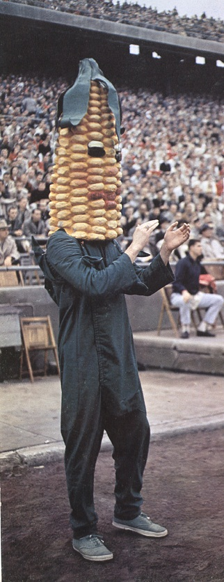 Mascot of Nebraska Cornhuskers football team